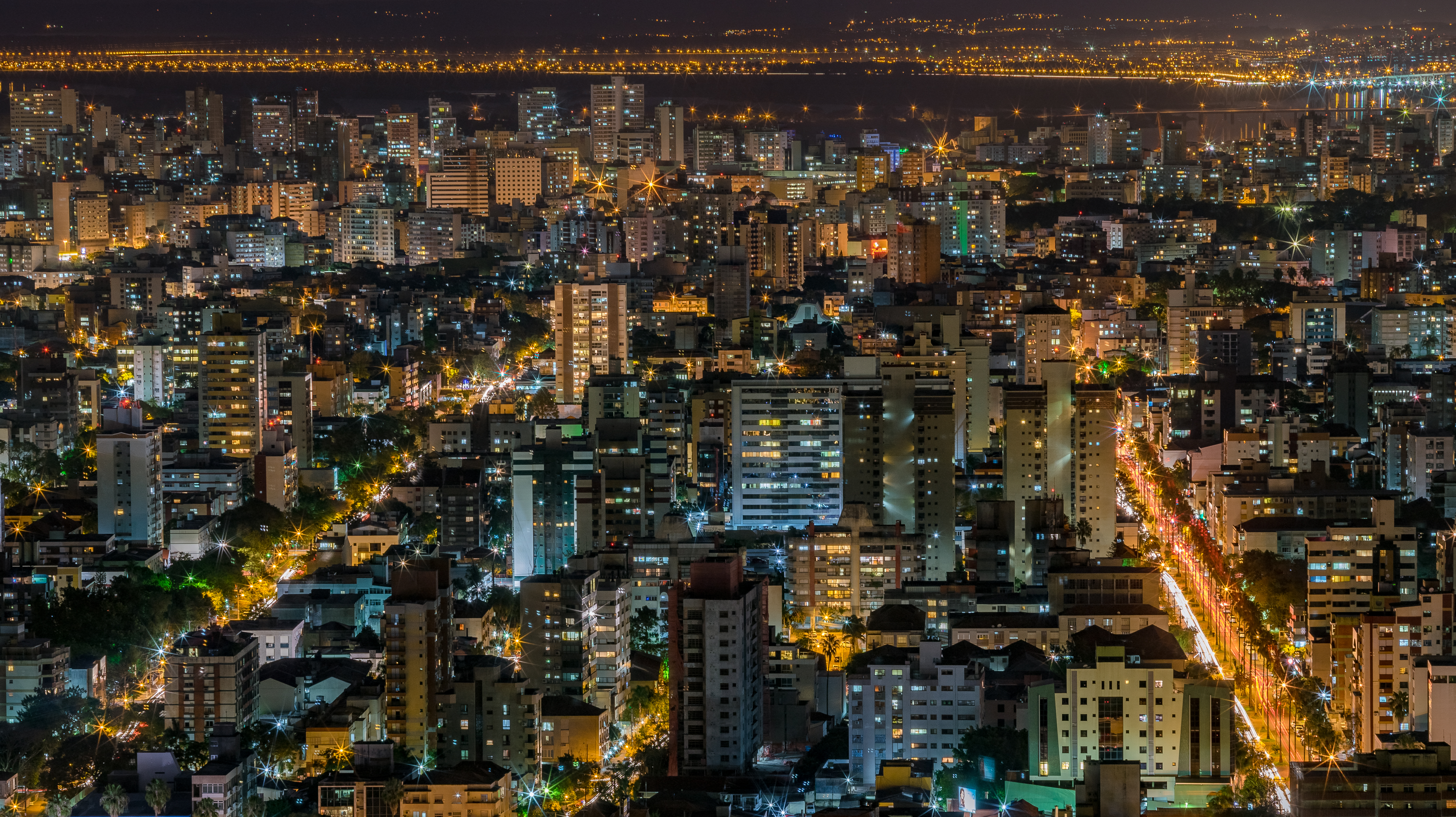 Porto Alegre at night from the Claro building tower. Lens was at f/22.